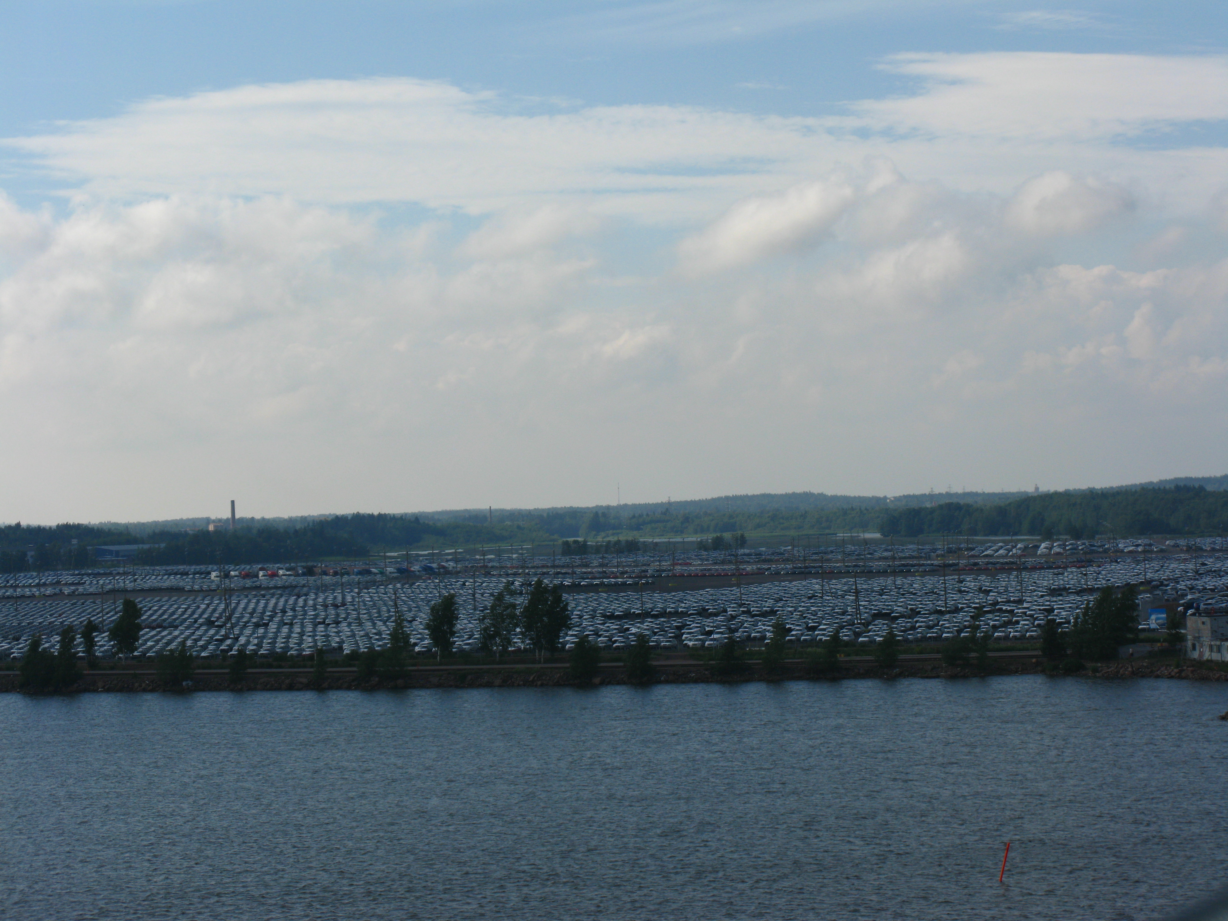 The Port of Hietanen in Kotka filled with cars waiting to be transported to Russia.